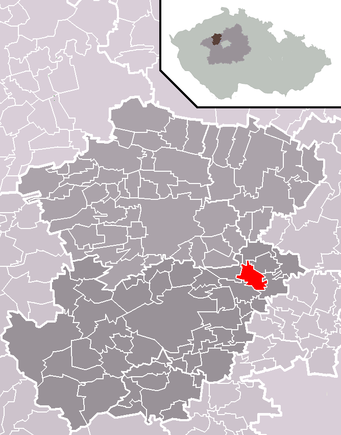 Location of Koleč municipality within Kladno District and administrative area of Kladno as a Municipality with Extended Competence.